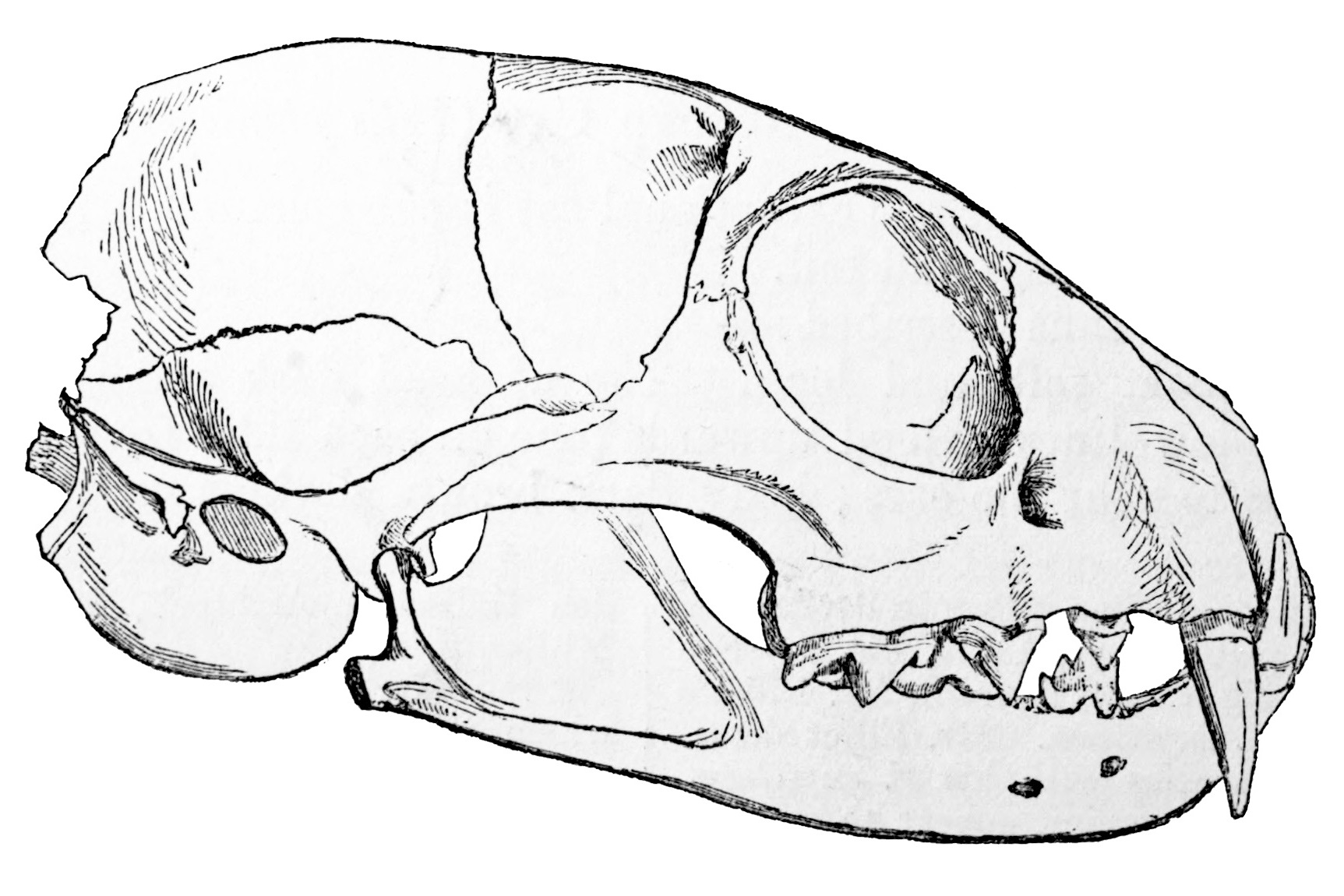 The cat : an introduction to the study of backboned animals, especially mammals / by St. George Mivart. Skull of Prionailurus planiceps